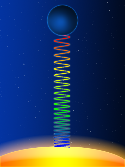 This is a modified version of namely a version that has been rotated by 90 degrees. The original image has the following description: Illustration for gravitational red-shifting. Picture created using Adobe Photoshop CS2.